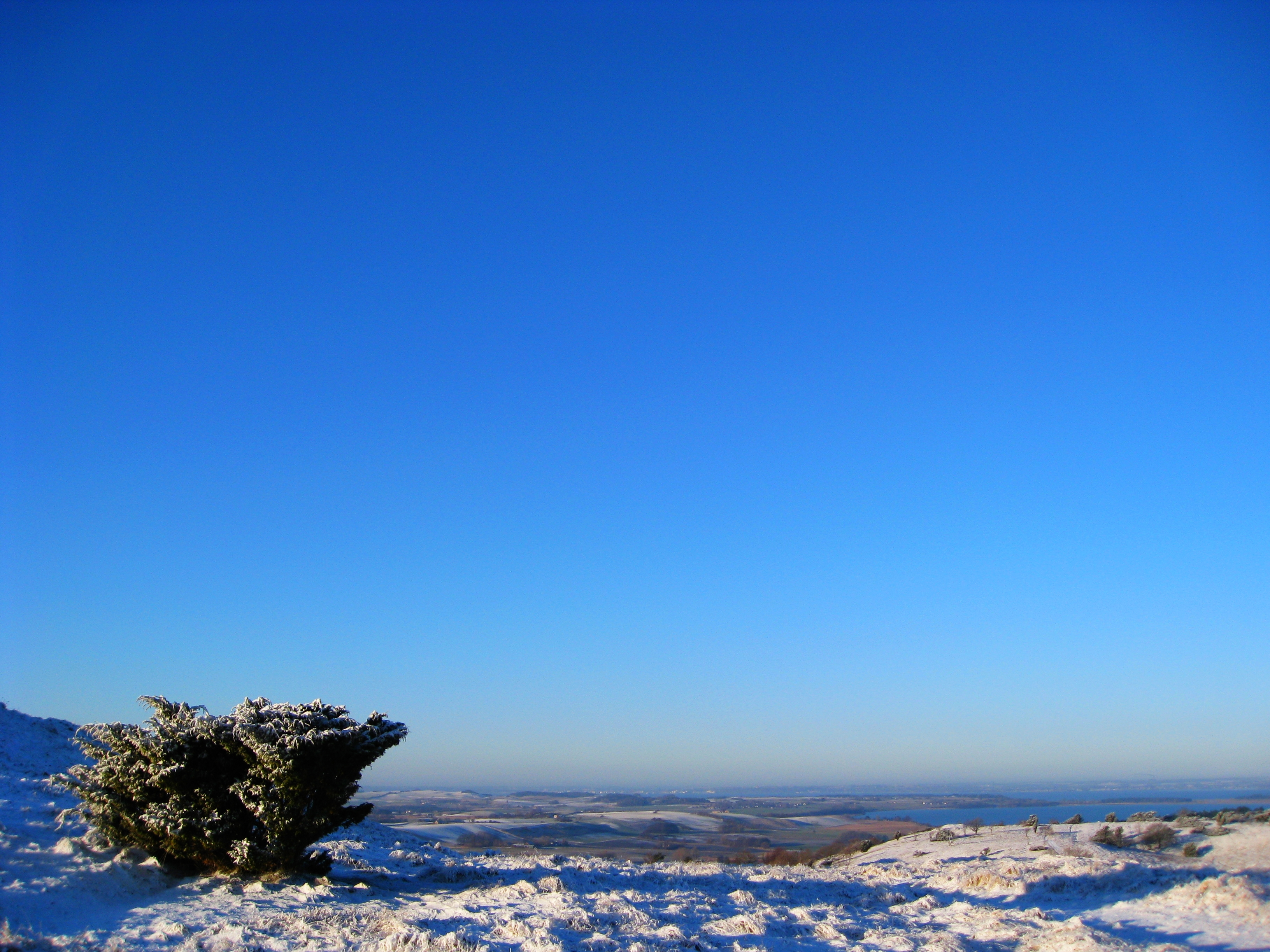 View from 'Trehøje' on a winters day.